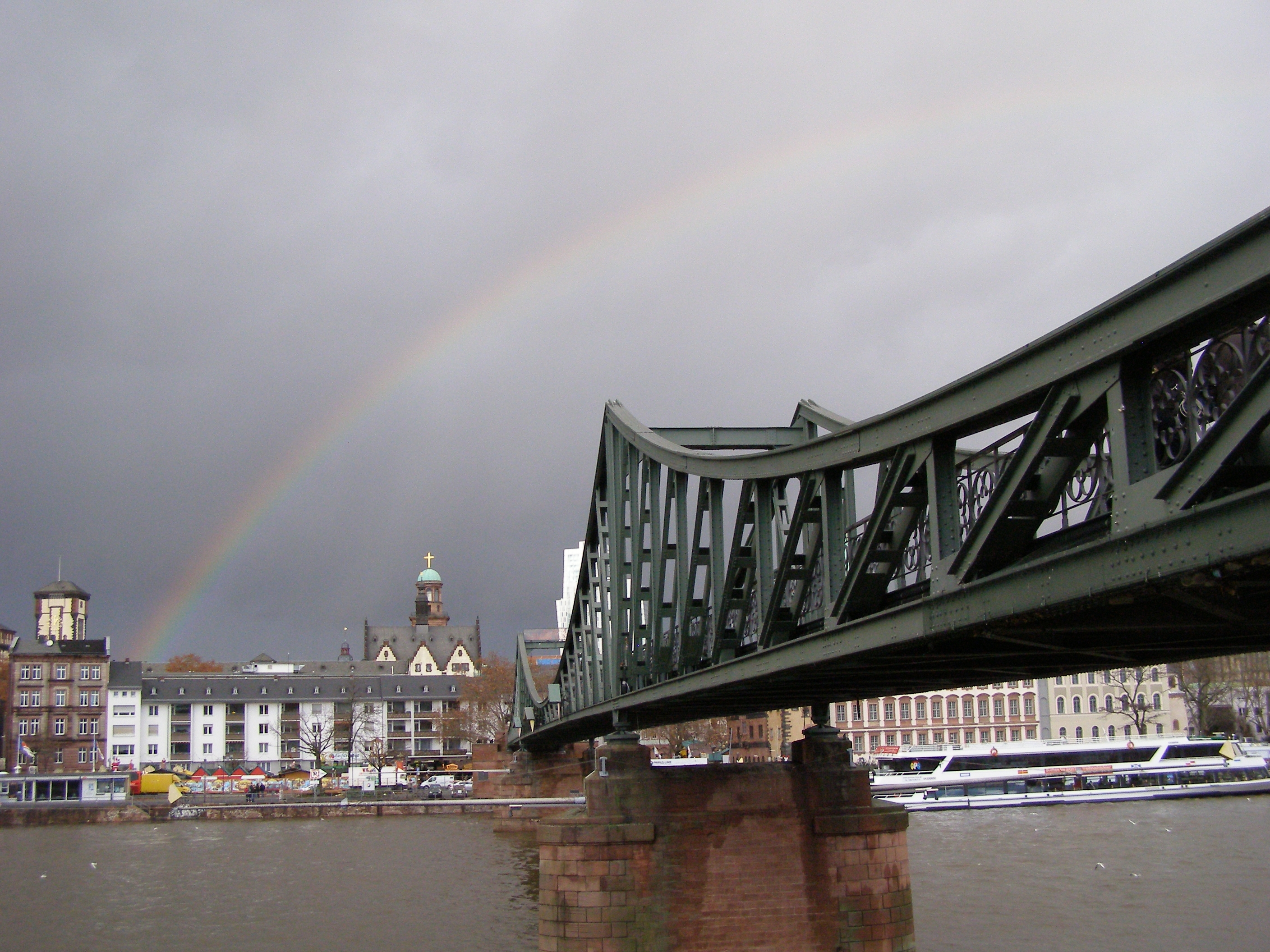 Frankfurt am Main - Eiserner Steg